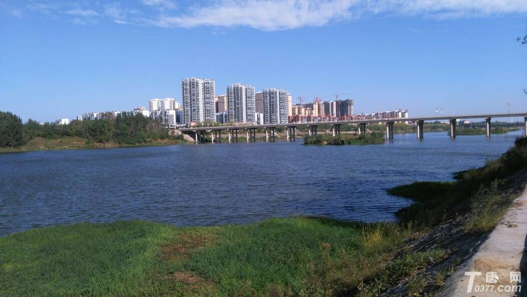 Tanghe river, and background is the residence buildings in the northwest part of the city